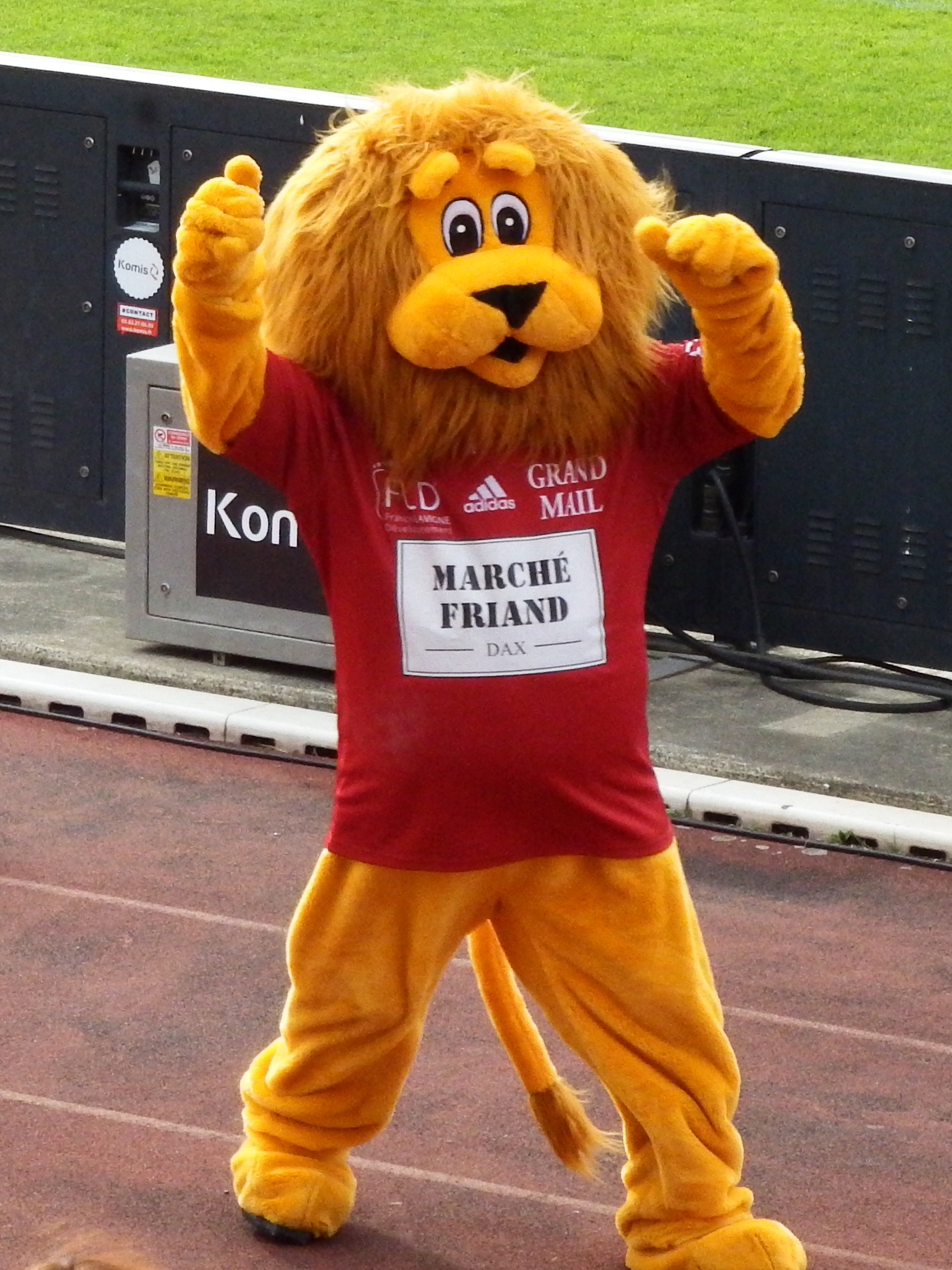 2016–17 Rugby Pro D2 season — 23 October 2016, Stade Maurice Boyau. Match between: US Dax — Biarritz Olympique